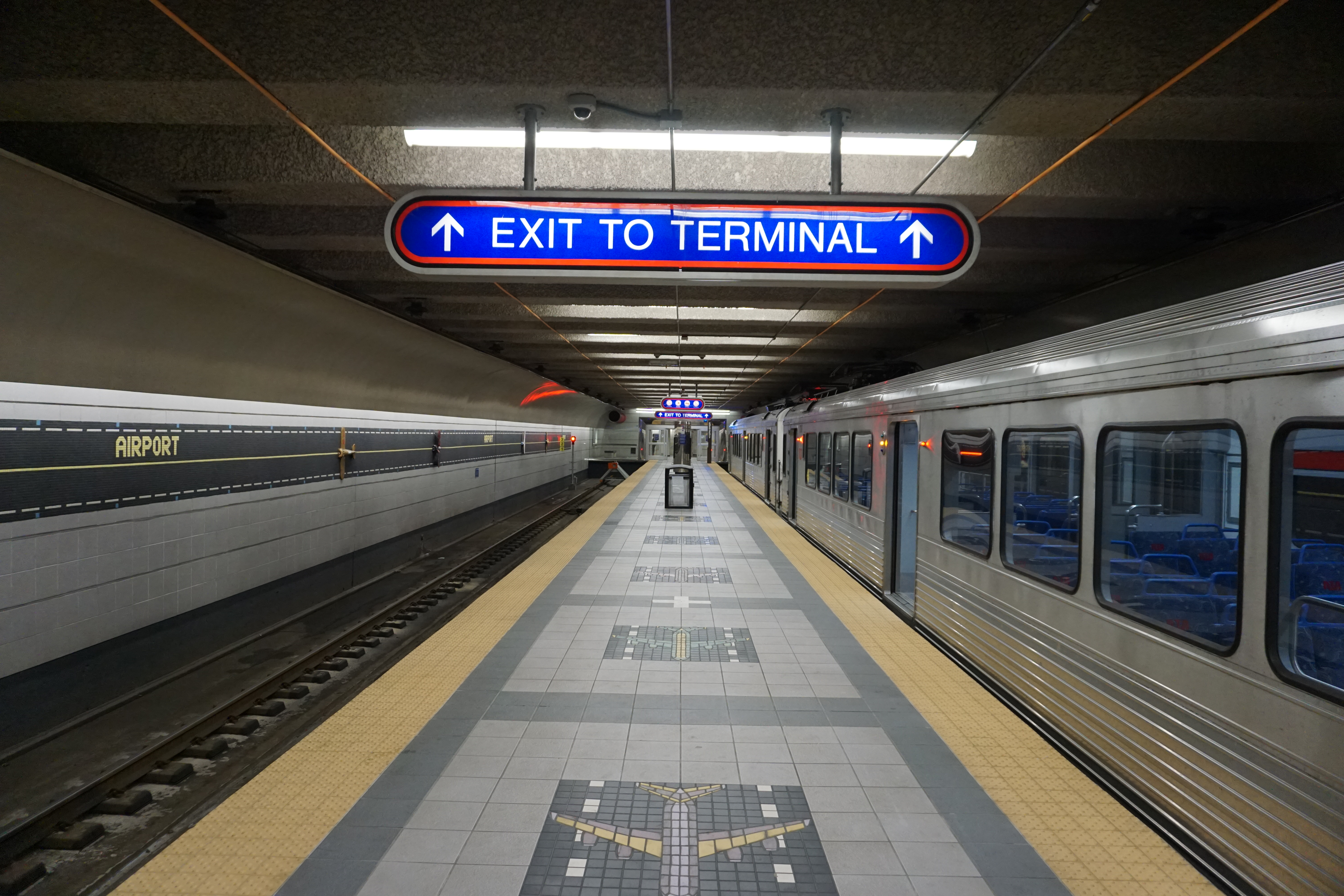 Cleveland Hopkins International Airport Station in Cleveland, Ohio (United States).